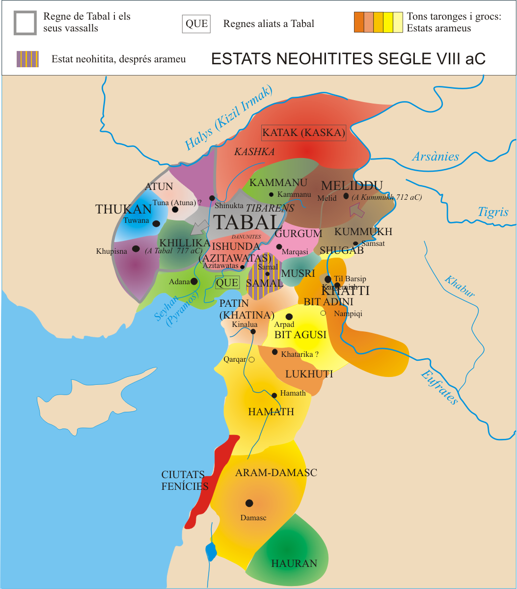 Neo-Hittite and Aramean states in Syria in the VIII century BC